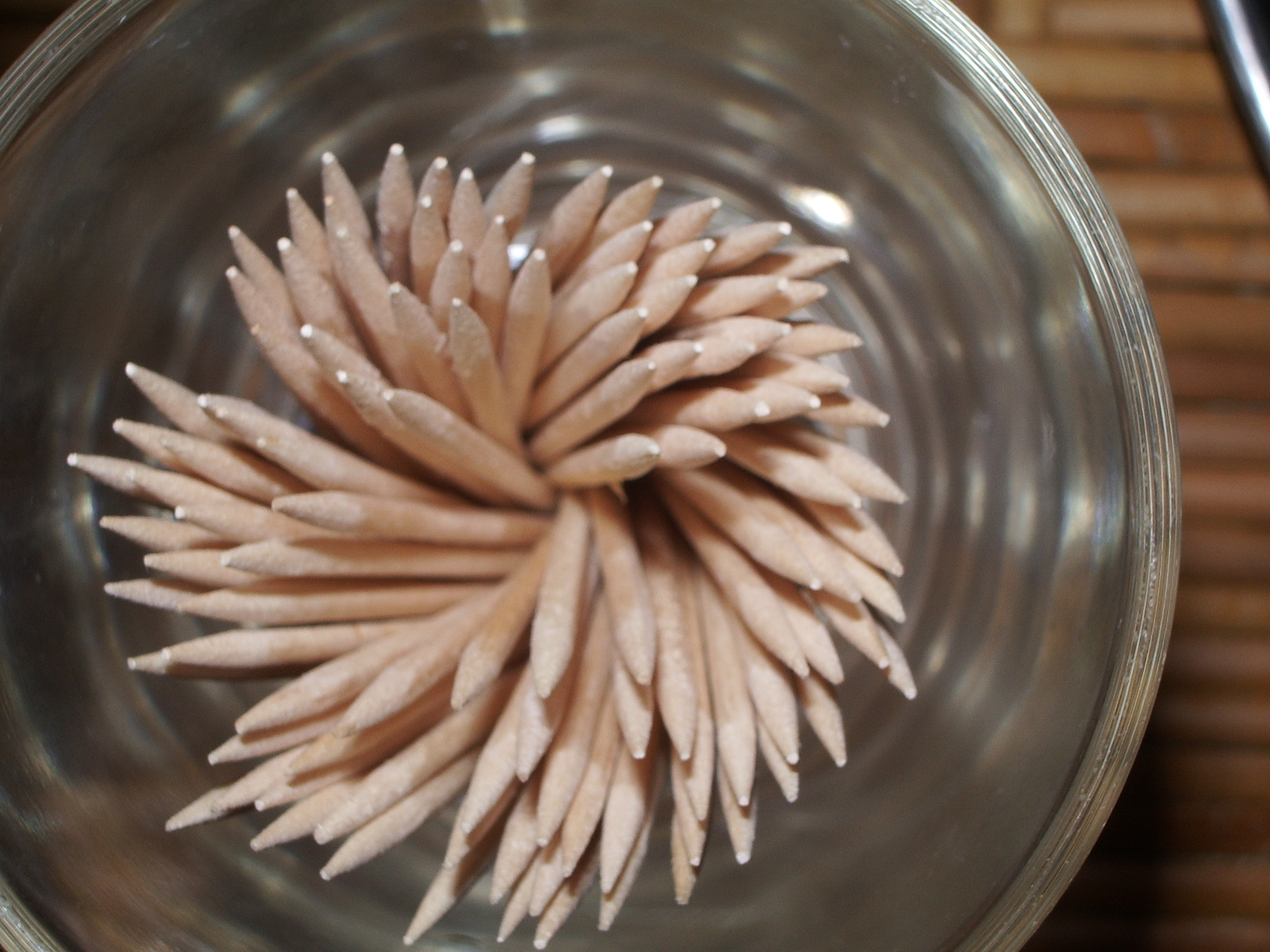 Used for impaling olives.